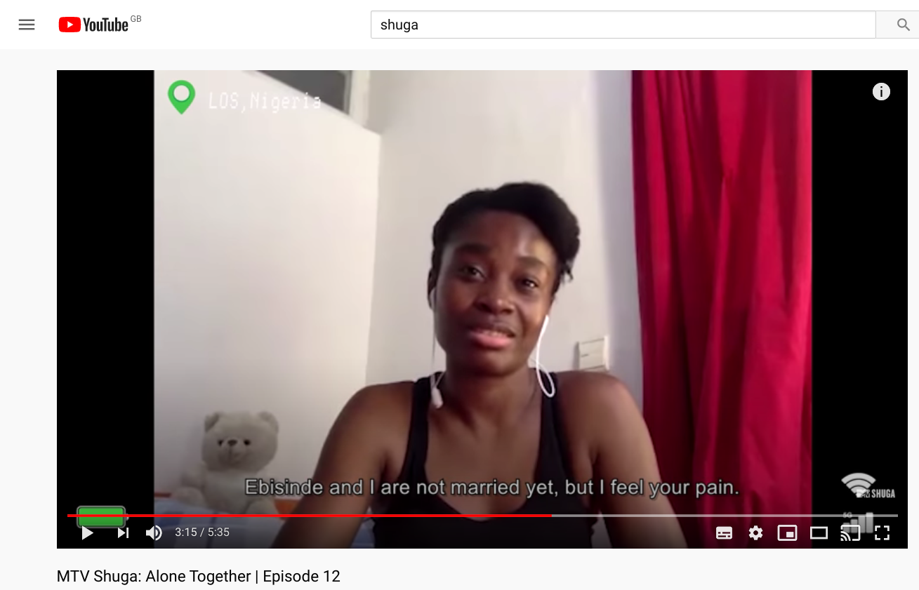 Cynthia played by Uzoamaka Aniunoh in 2020 in MTV Shuga Alone Together